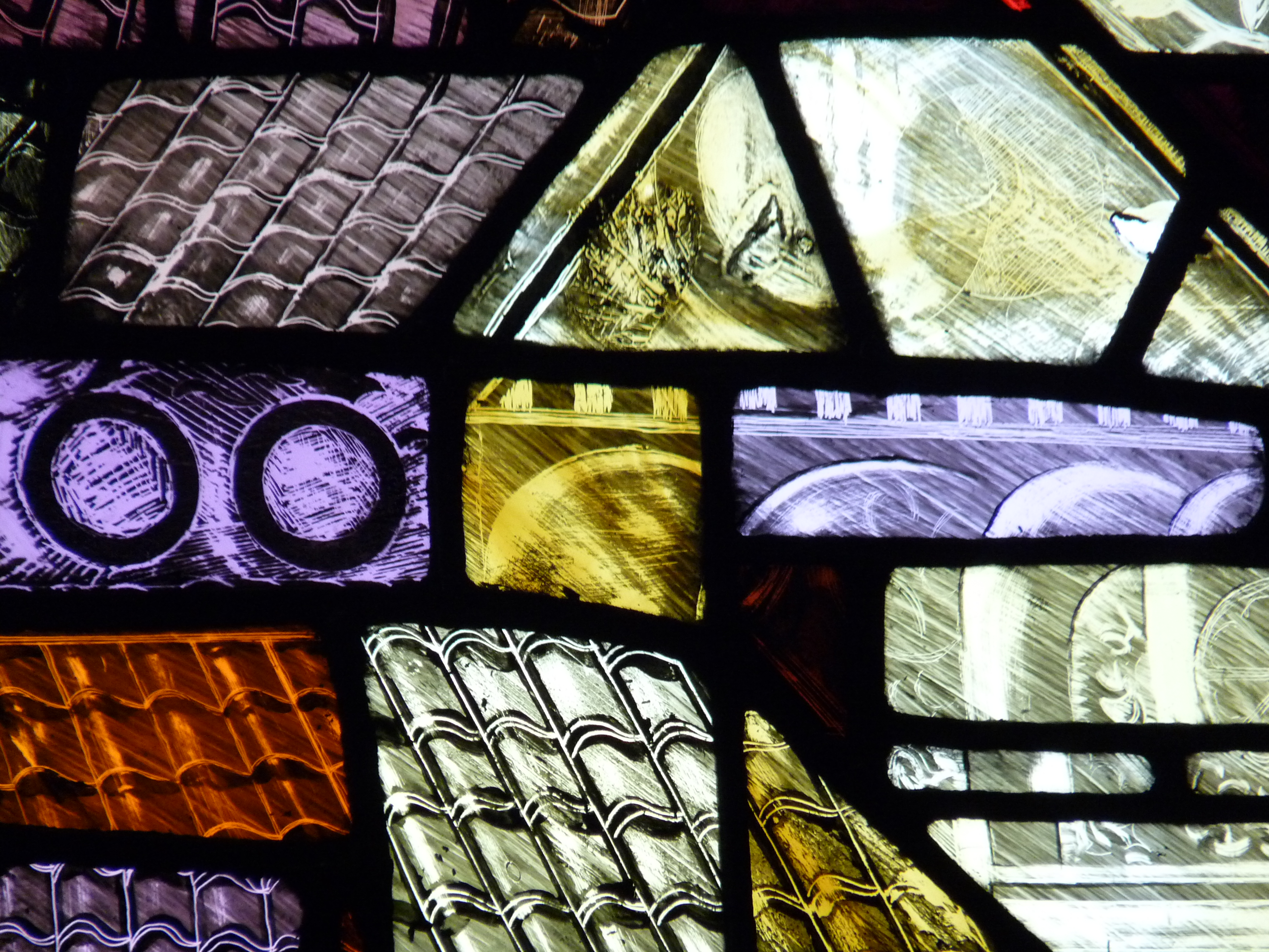 Detail of a post World War II stained glass window in Manchester Cathedral.